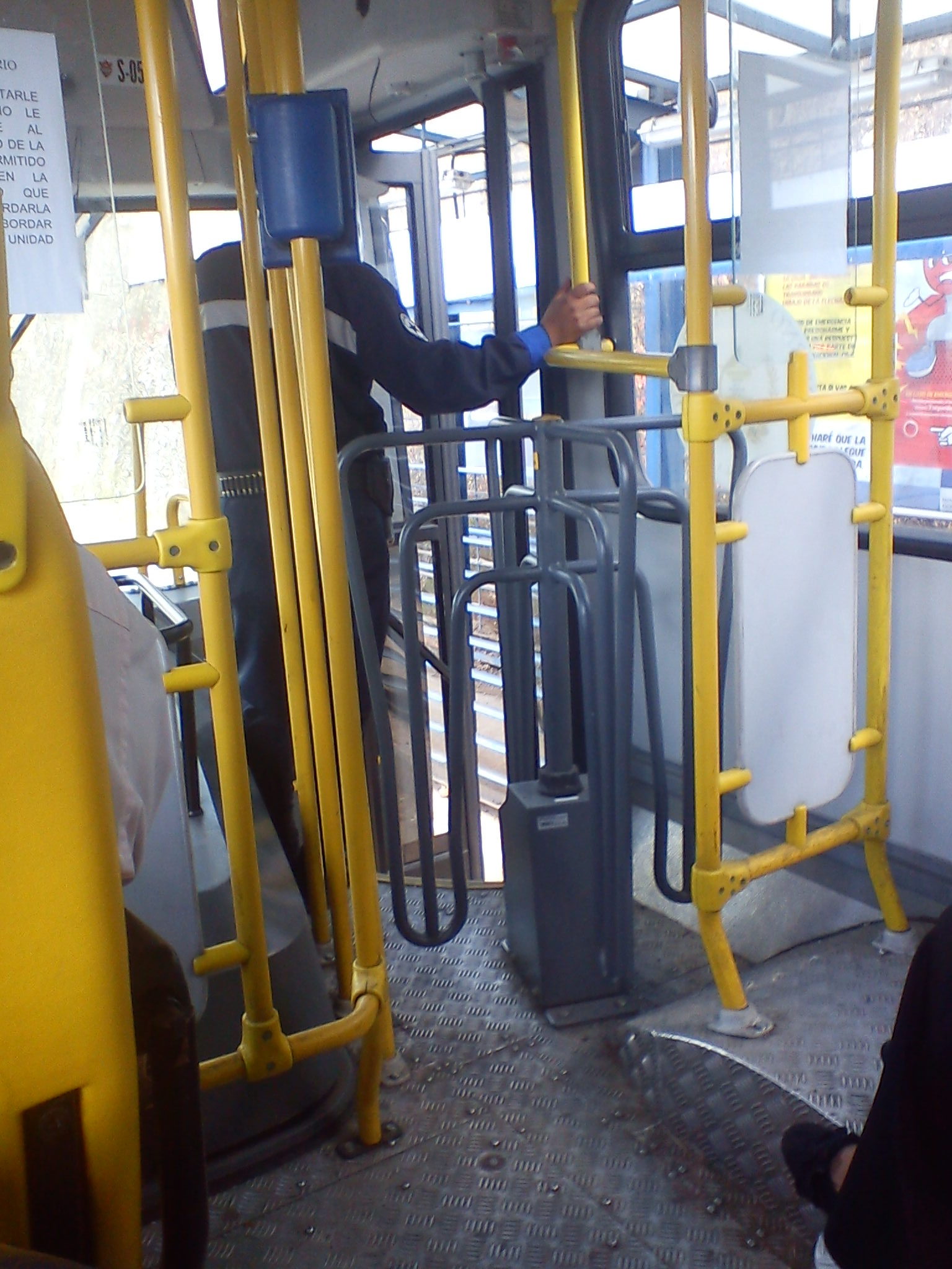 Tamaño del molinete del Transurbano